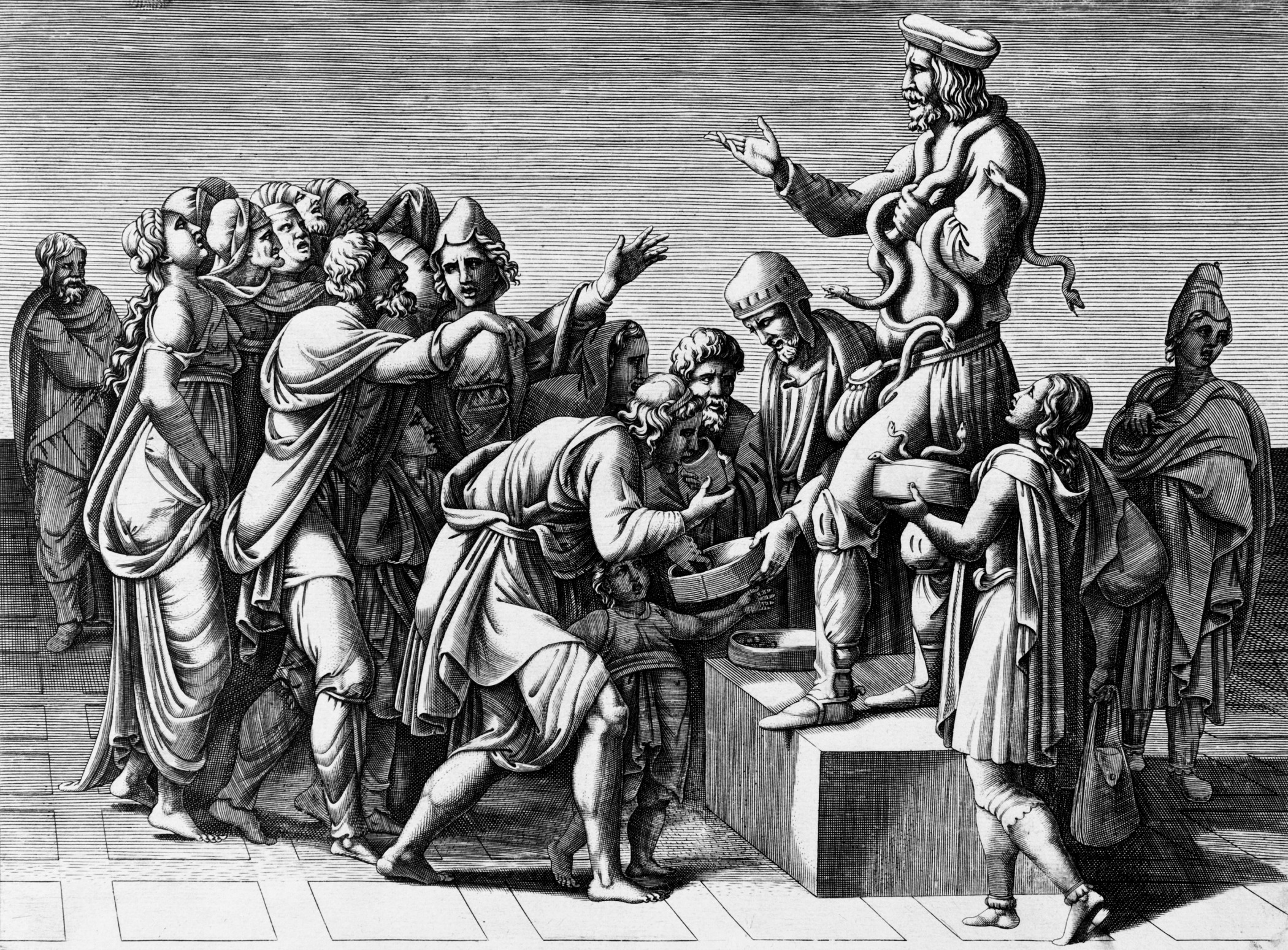 Italy, 16th century Prints; engravings Engraving Sheet: 9 x 12 in. (22.86 x 30.48 cm) Mary Stansbury Ruiz Bequest (M.88.91.44) Prints and Drawings